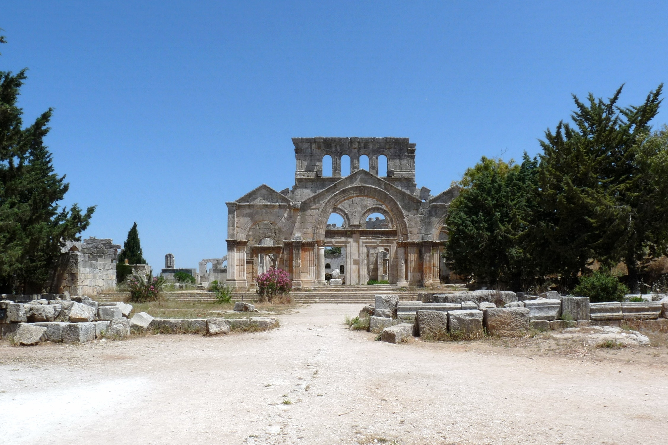 South facade of the church ruins of St Simeon Stylites, Syria